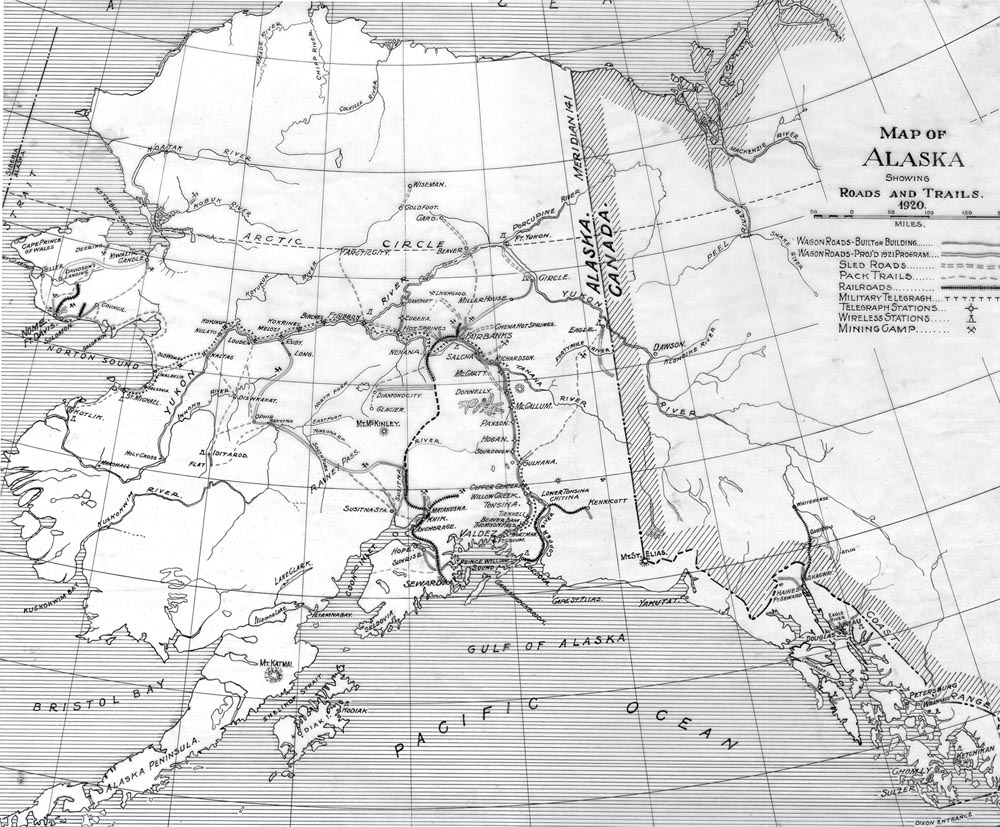 This map is of the roads, sled roads, pack trails, railroads and telegraph lines, existing and proposed, in the Territory (now State) of Alaska as published by the Alaska Road Commission